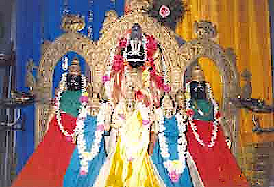 taken from private collection of T K VENUGOPAL (that is myself) No copyright required.